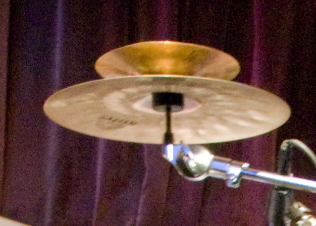 Detail of File:Dave Weckl's drum kit @Jazz Alley, 8th Dec. 2007.jpg